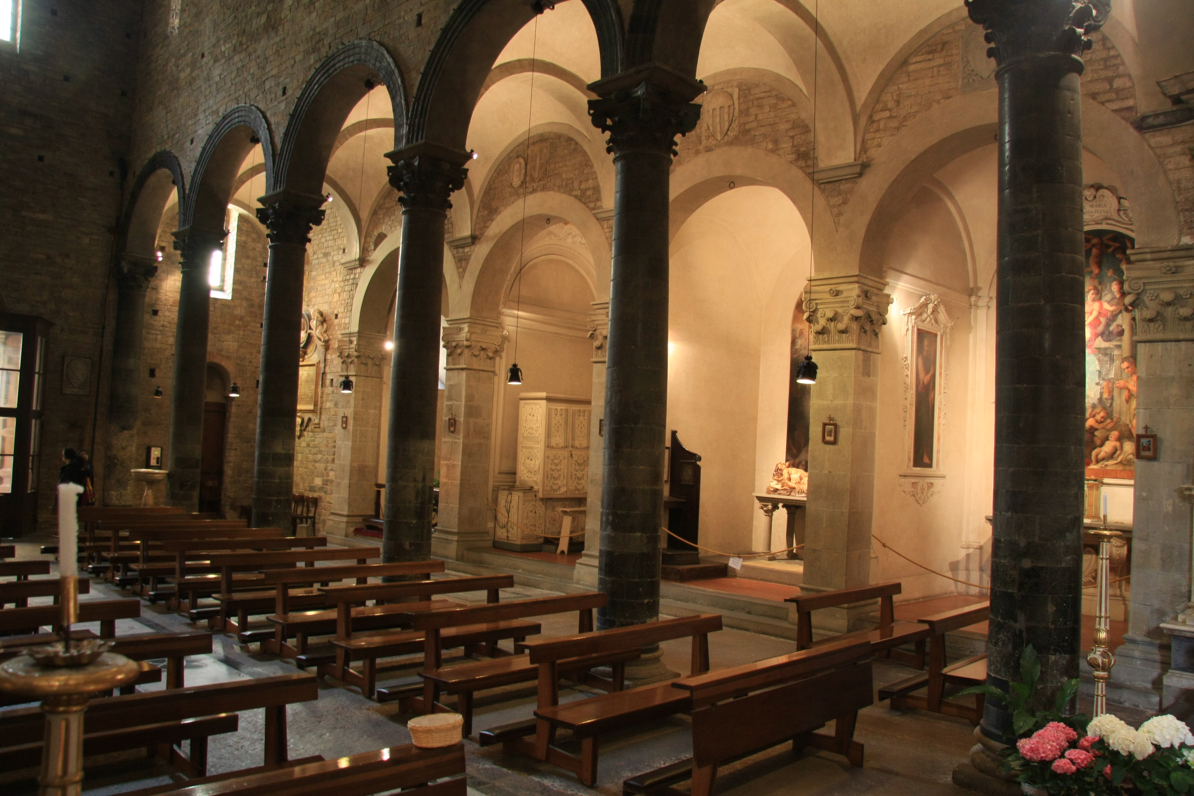 Inside of the Church of Santi Apostoli, Florence